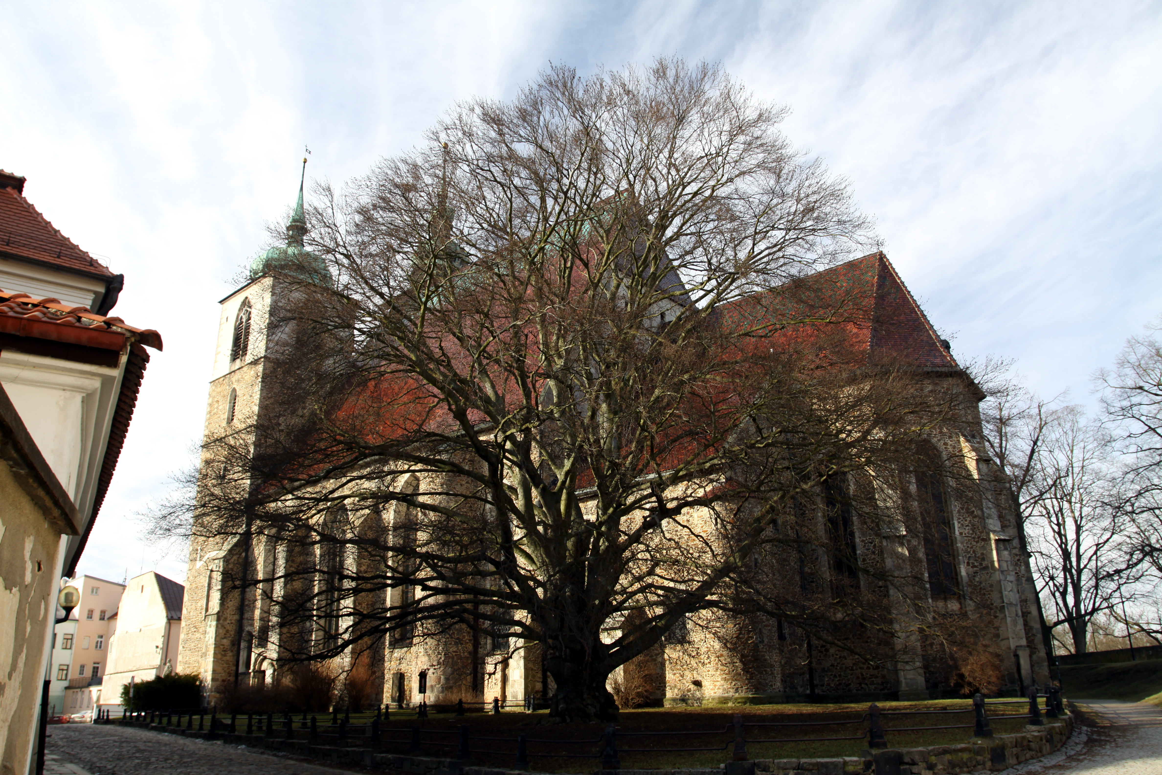 Famosu tree "Buk u kostela v Jihlavě", Jihlava District, Czech Republic